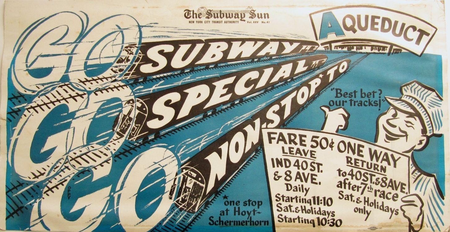 This was a poster posted in subway cars to announce the Aqueduct Specials to Aqueduct Racetrack in Queens.